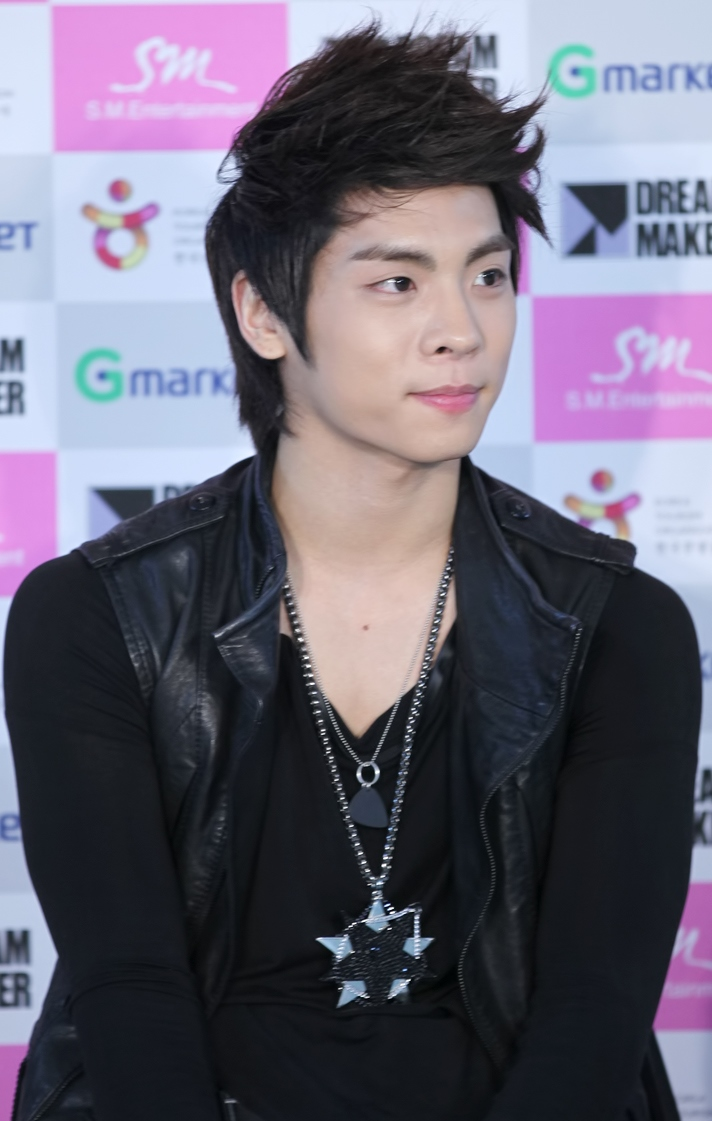 Jonghyun at the SHINee World Concert Press Conference on January 2, 2011.